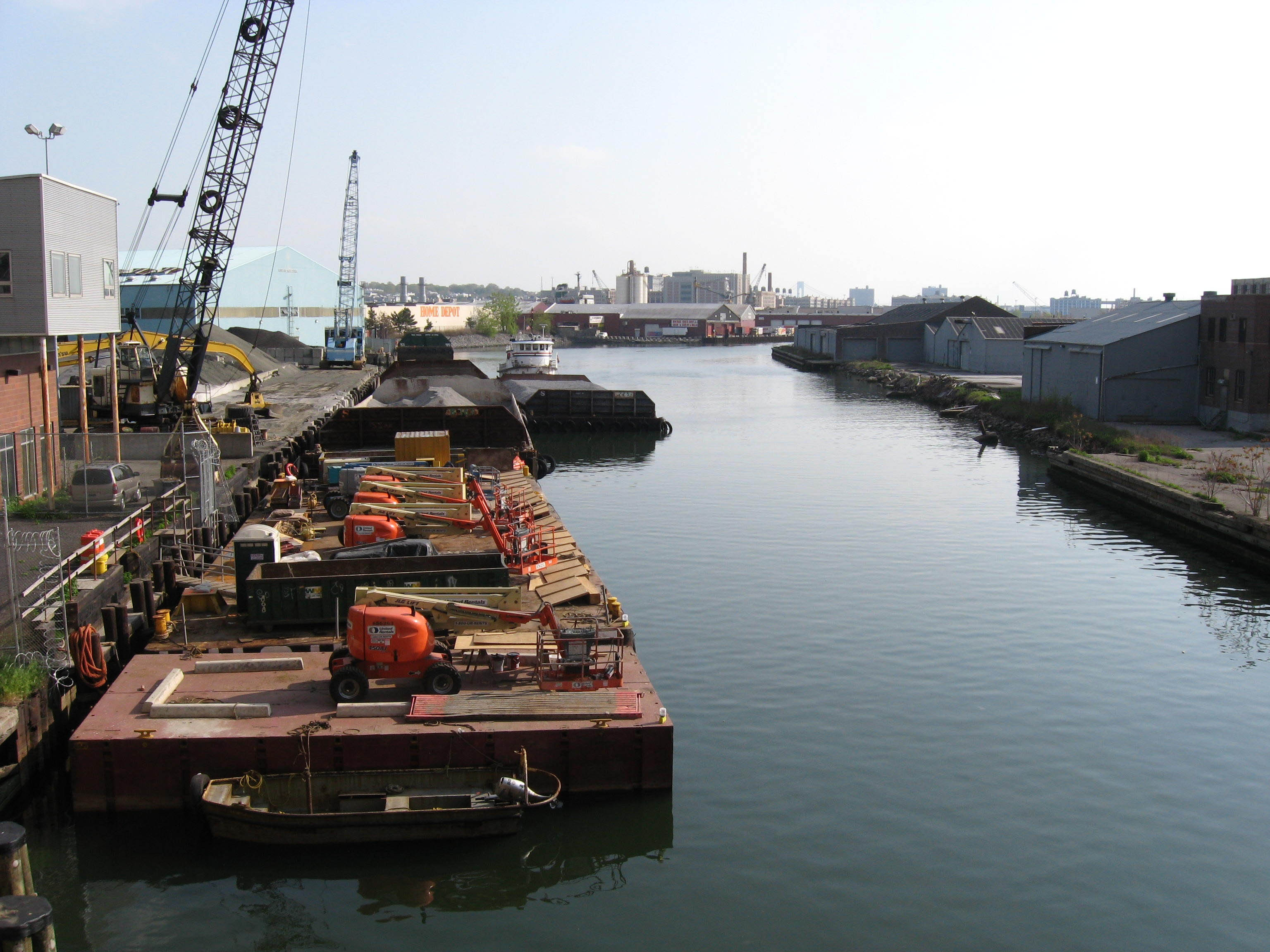 Looking south down the Gowanus Canal from Hamilton Avenue Bridge of Gowanus Expressway, at barges on a sunny afternoon in springtime.